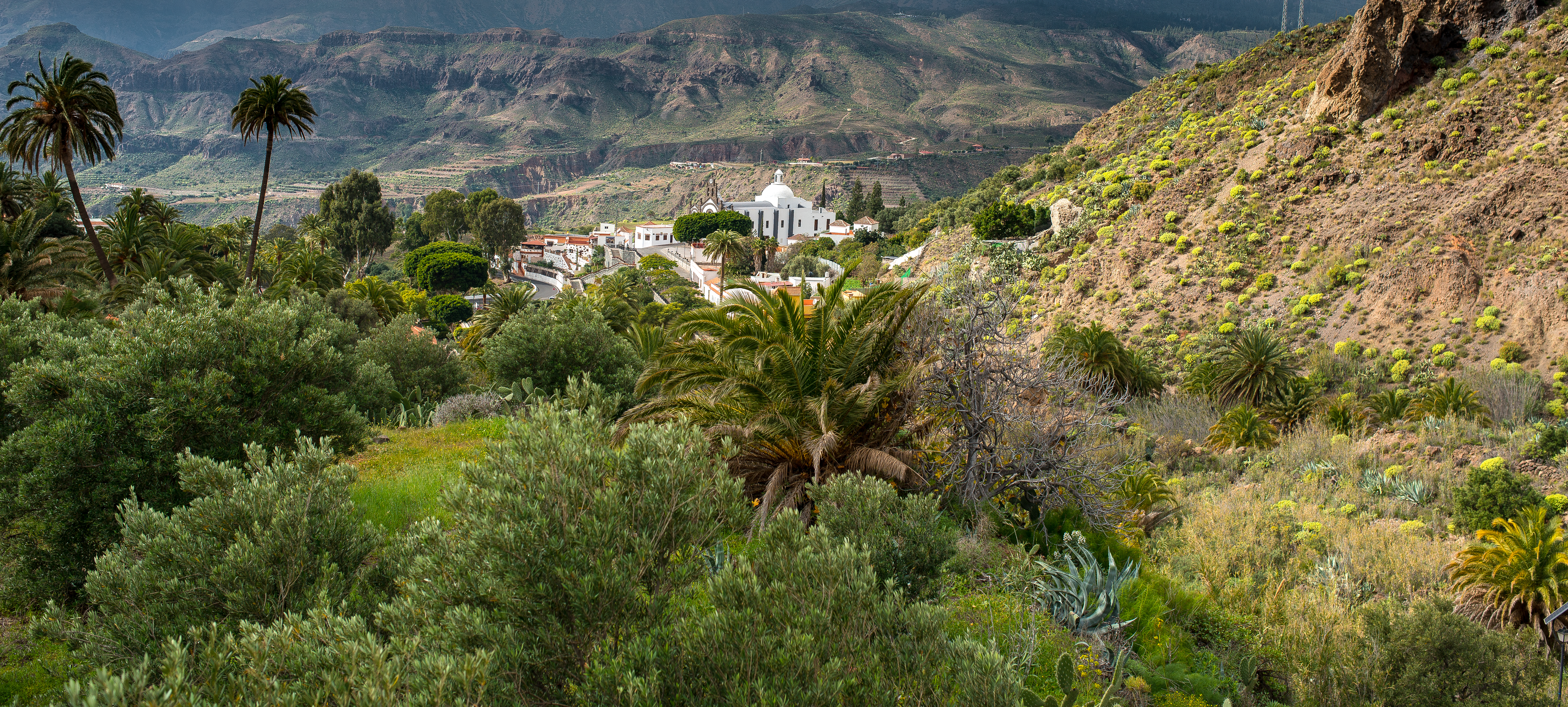 Santa Lucia de Tirajana Gran Canaria January 2016